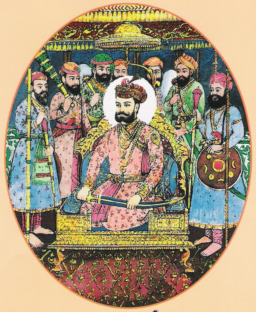 Hemu Vikramaditya who was the last great Emperor of Hindustan.